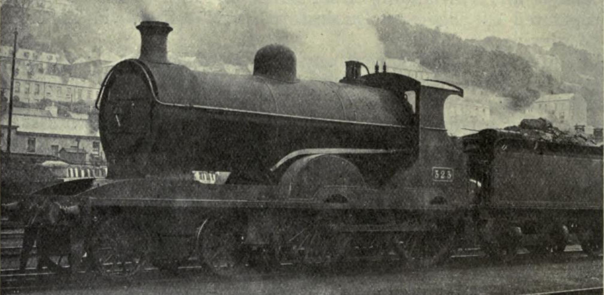 Great Southern & Western Railway 4-4-0 Class 321 express passenger locomotive No. 323